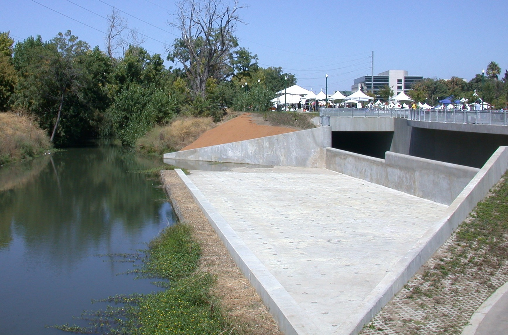 Festivities at the grand opening of the Guadalupe River Park and Gardens in San José, California. Photograph taken by Dvortygirl 10 September 2005.